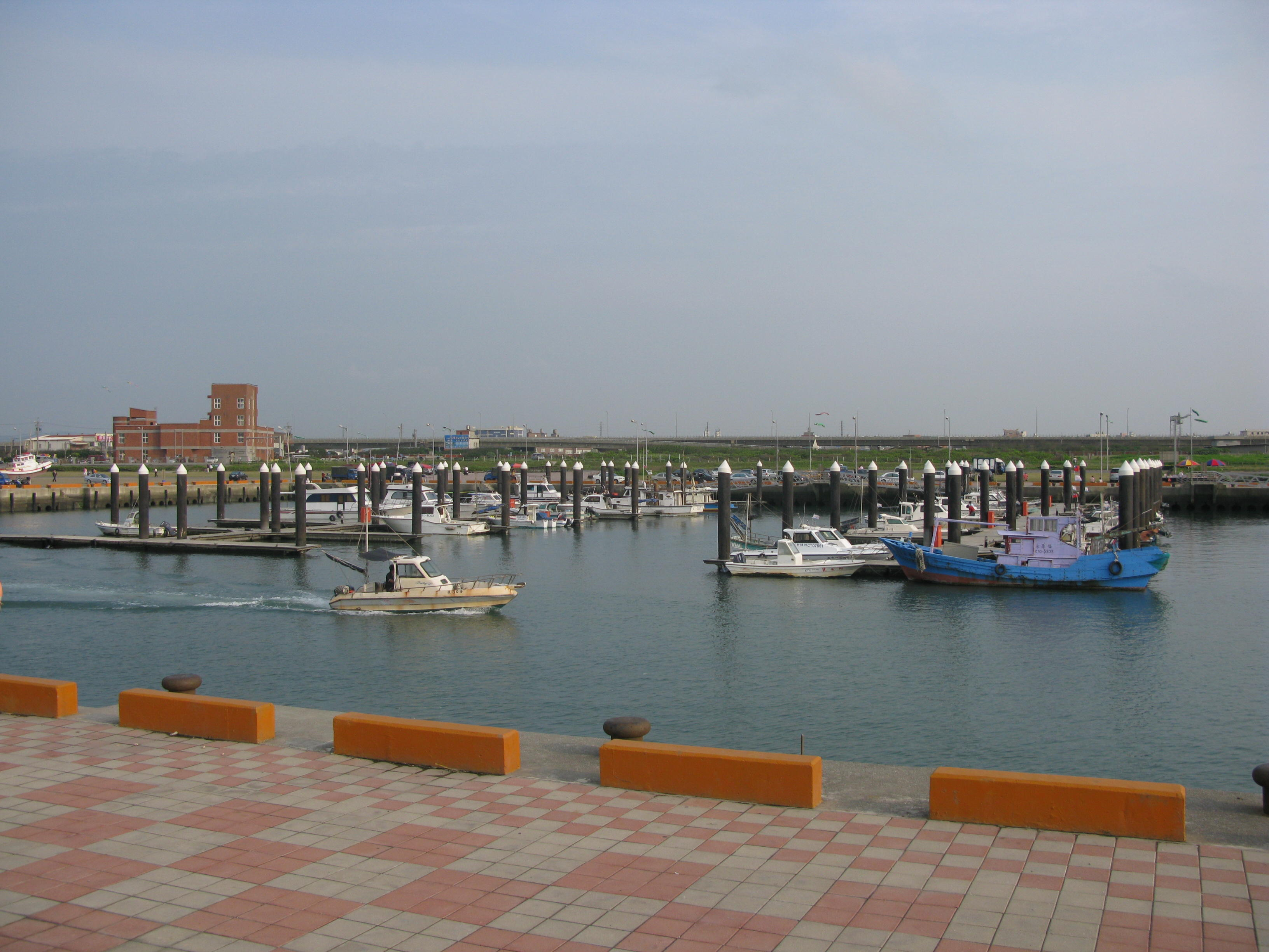 Chuwei port, Taoyuan County, Taiwan.